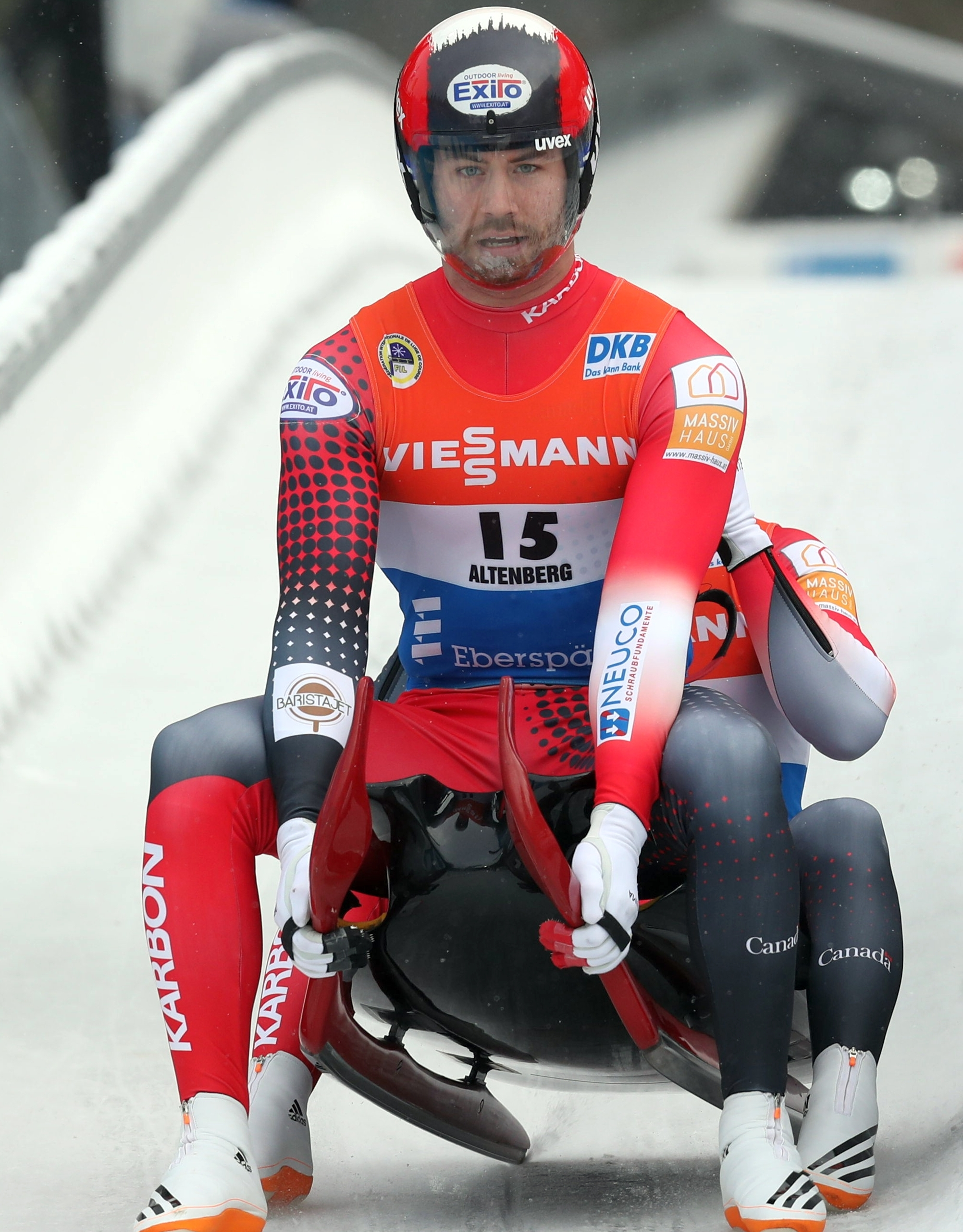 Doubles race at the Altenberg luge world cup 2017/18: Tristan Walker, Justin Snith